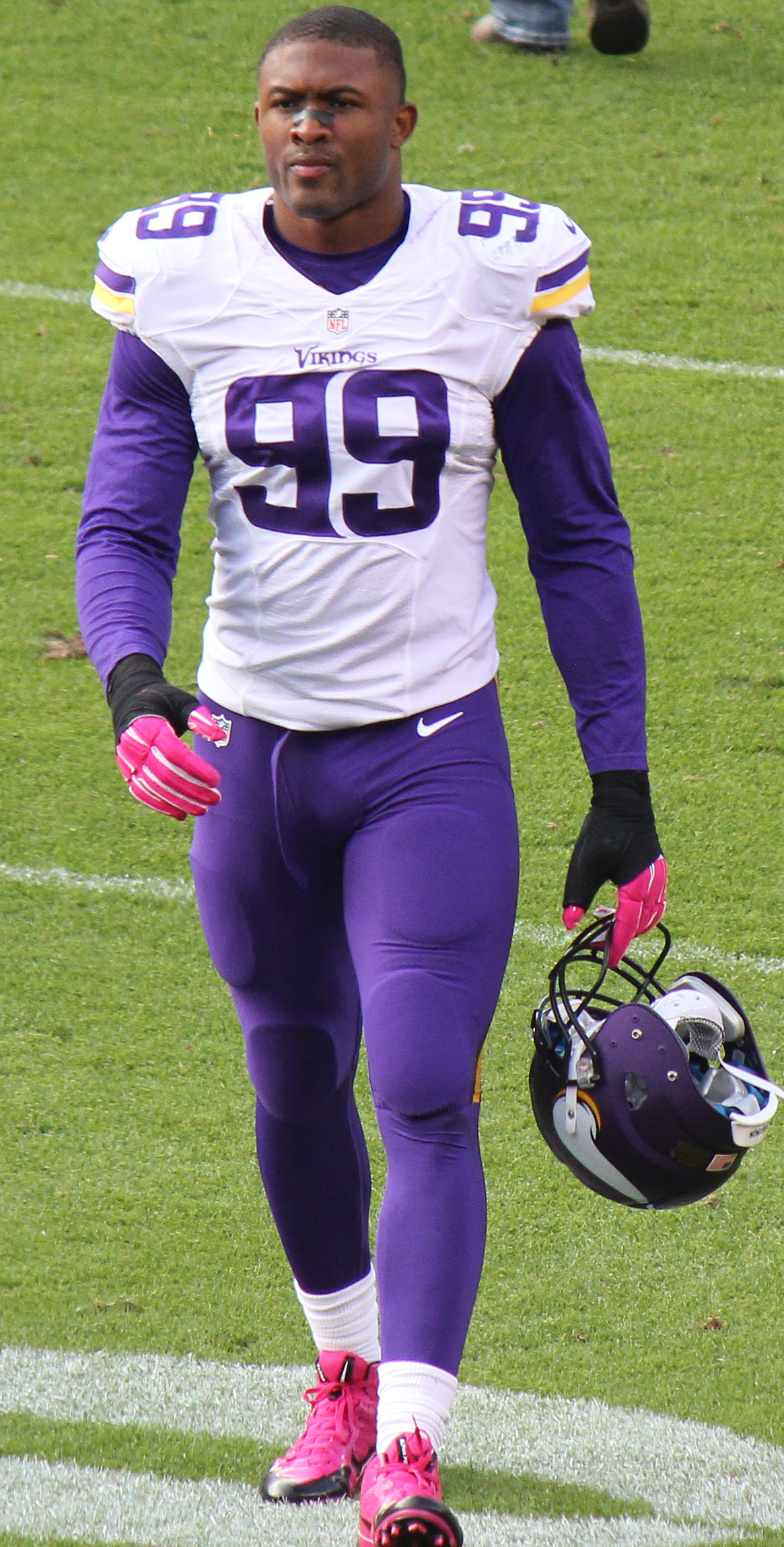 Danielle Hunter, a player on the National Football League.